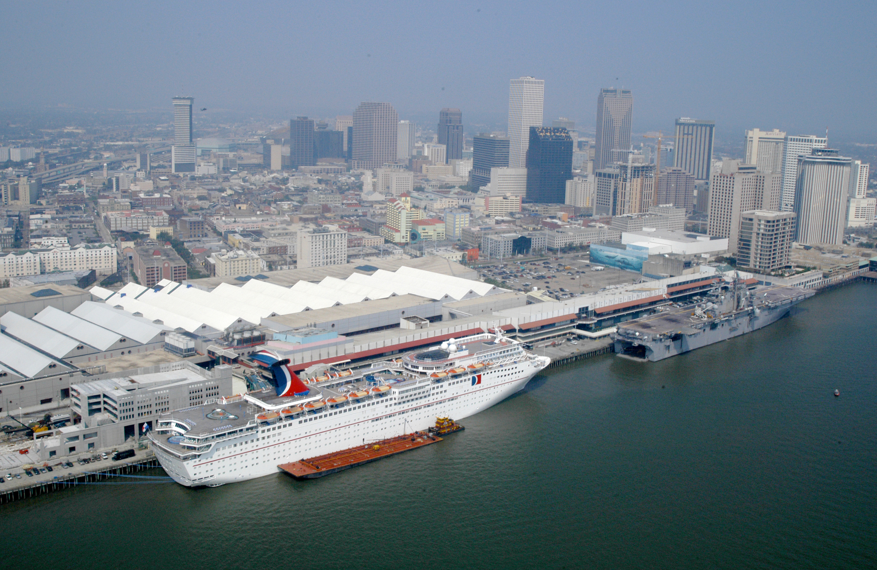 New Orleans, September 20, 2005 - A Carnival Cruise Line ship contracted by FEMA is berthed behind the U.S.S Iwo Jima on the city's waterfront. Housing for workers and evacuees alike is in short supply since Hurricane Katrina struck the area. Win Henderson / FEMA